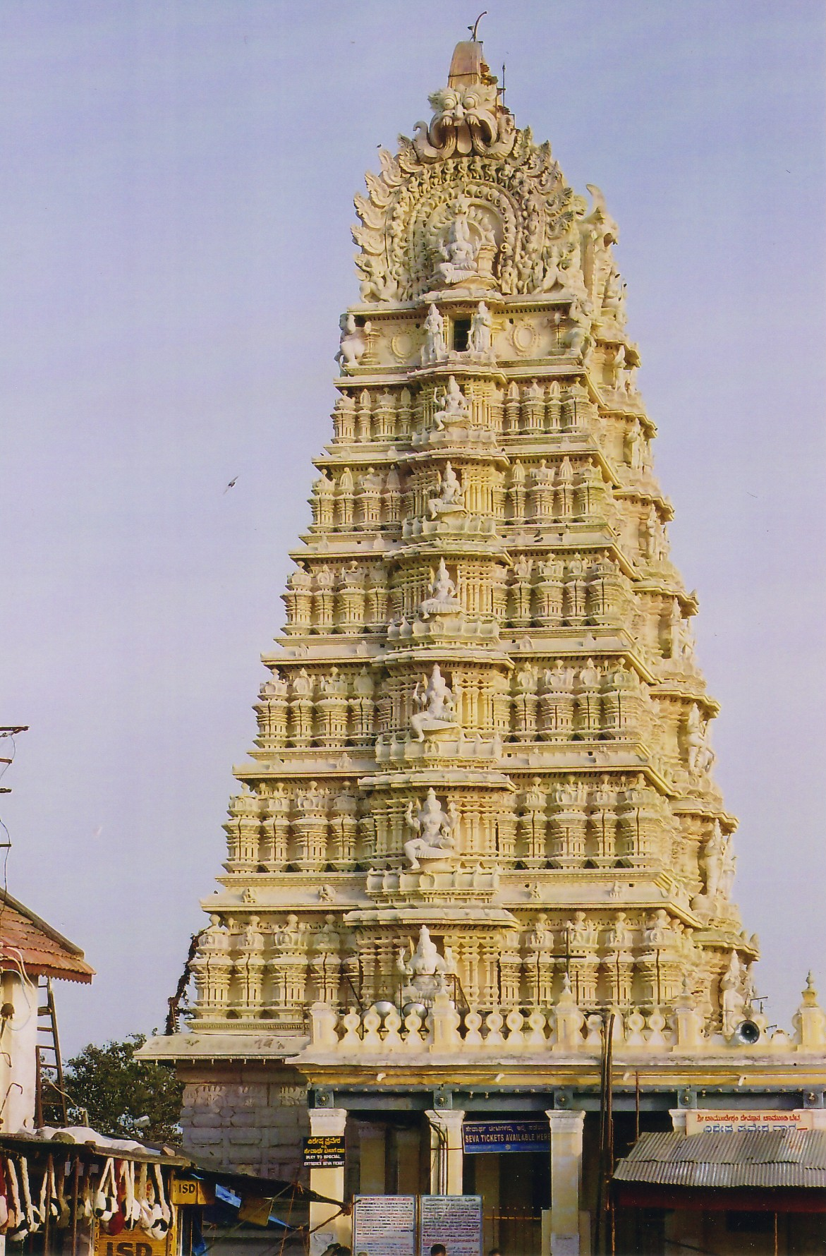 The Chamundeshwari temple on Chamundi Hill, in Mysore, Karnataka state, India in June 2002